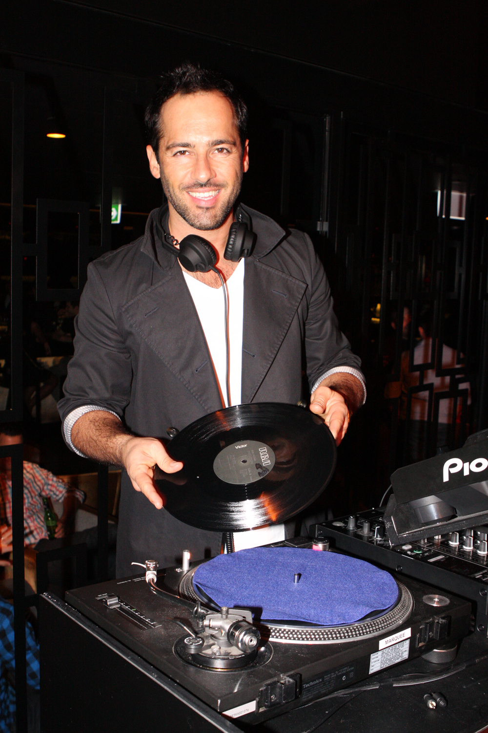 Actor Alex Dimitriades